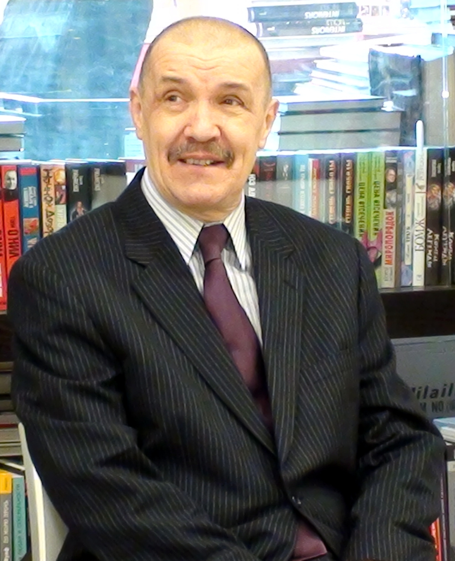 Nickolay Levinovsky in Moscow 2011-02-19